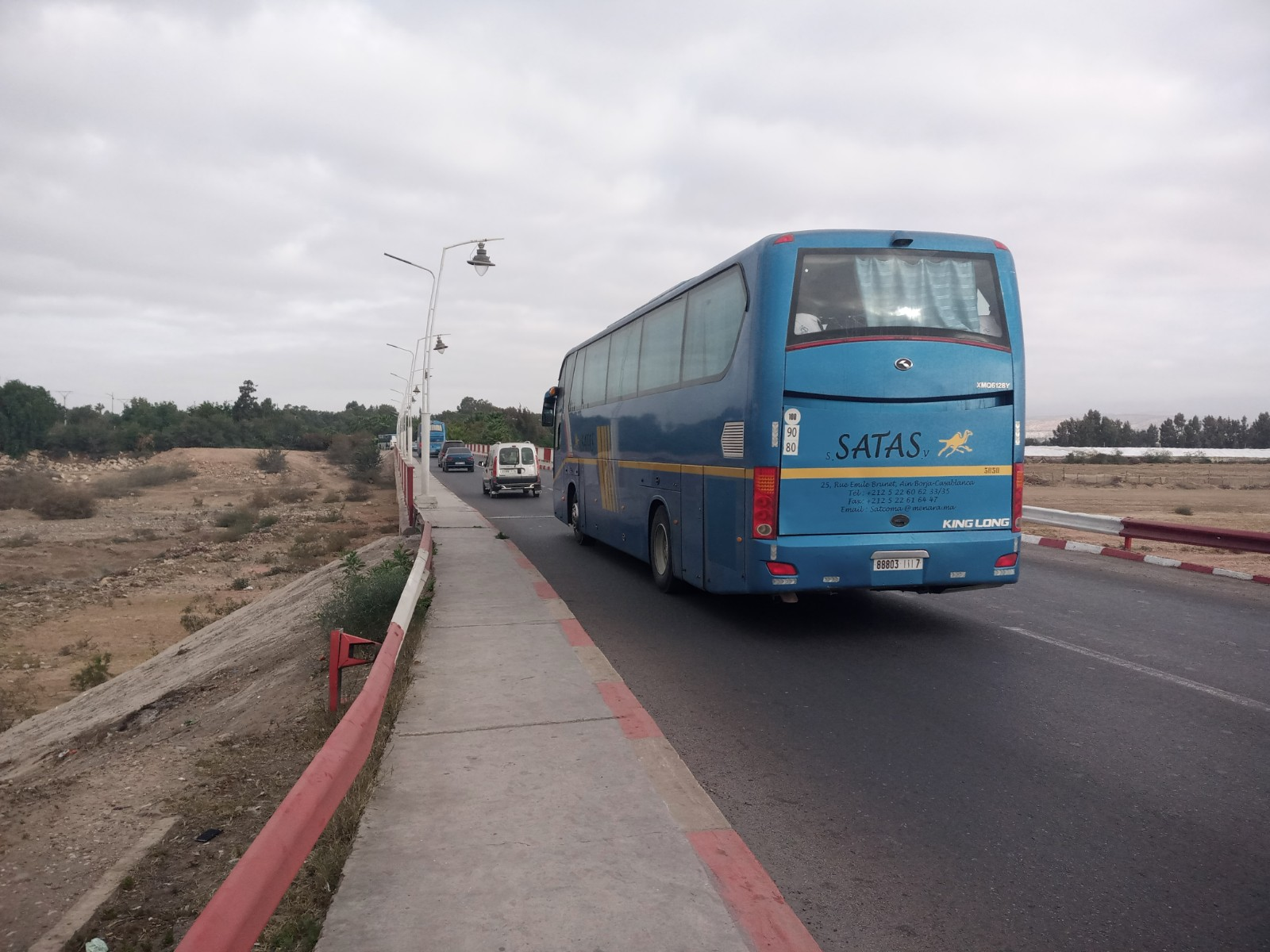 Ait Melloul's bridge built at the edge of the valley This is an image with the theme "Africa on the Move or Transport" from: Morocco